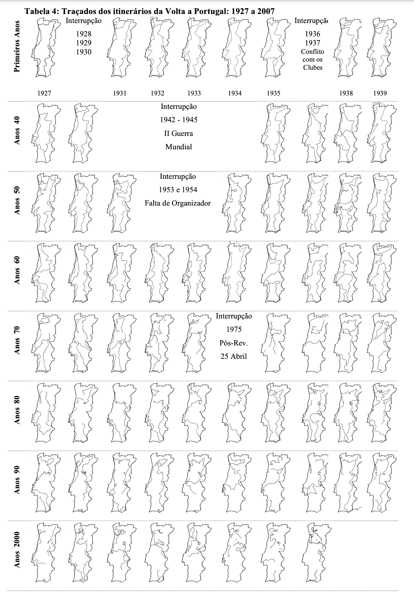 Mapas da Volta 1927-2008